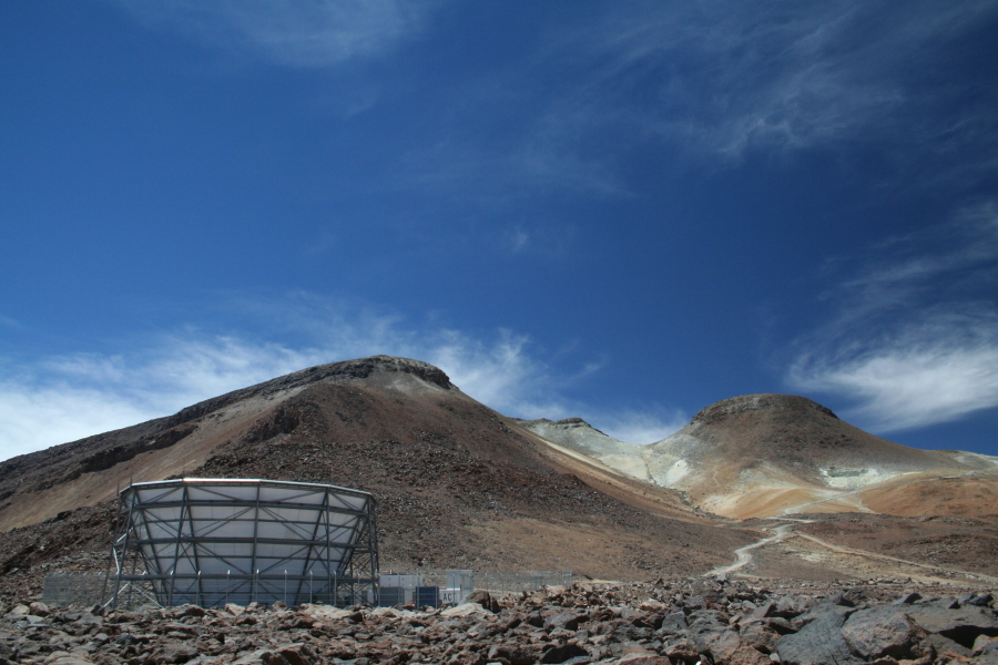 The Atacama Cosmology Telescope, 29 September 2008, with Cerro Toco in the background.